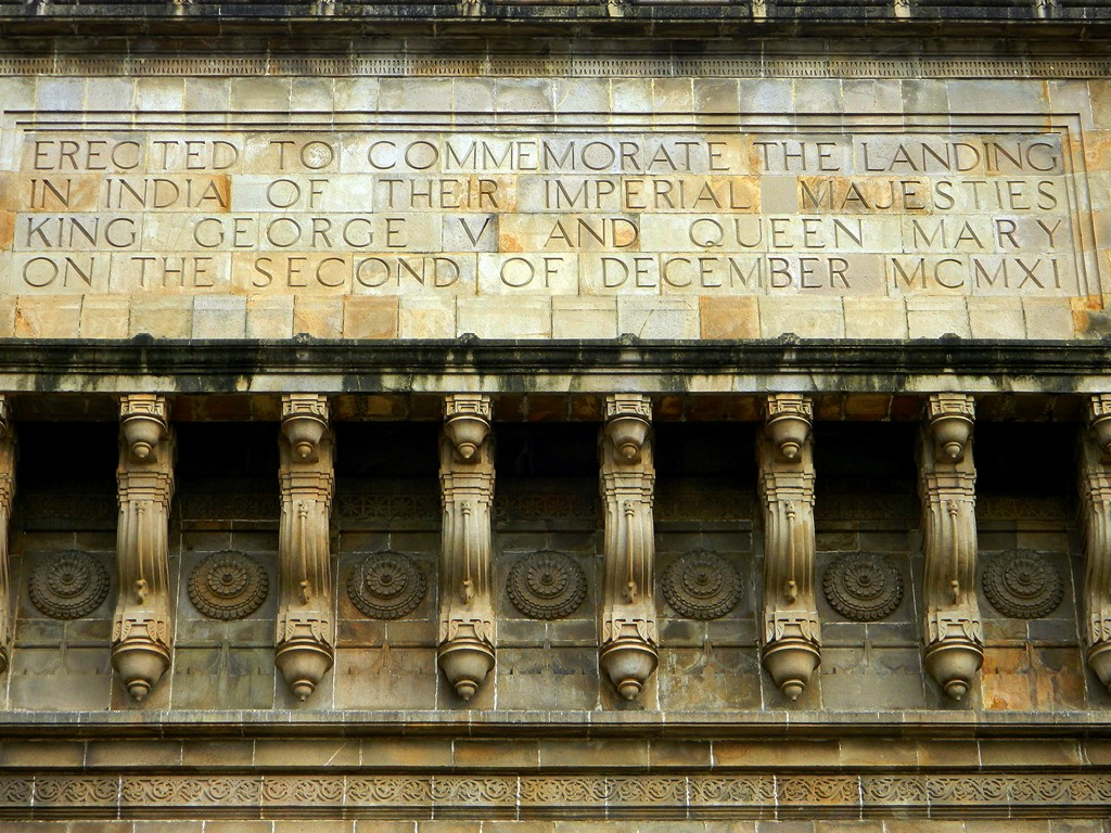 Gateway of India